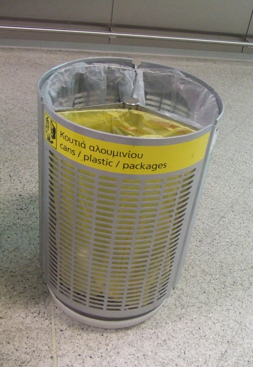 Recycling at Athens airport. Photo: Christos Vittoratos